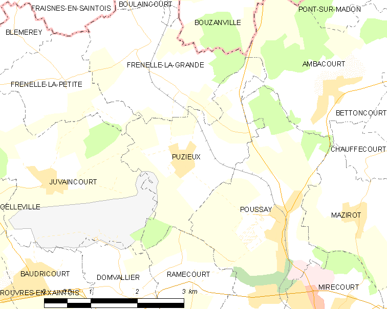 Map of French municipality Puzieux